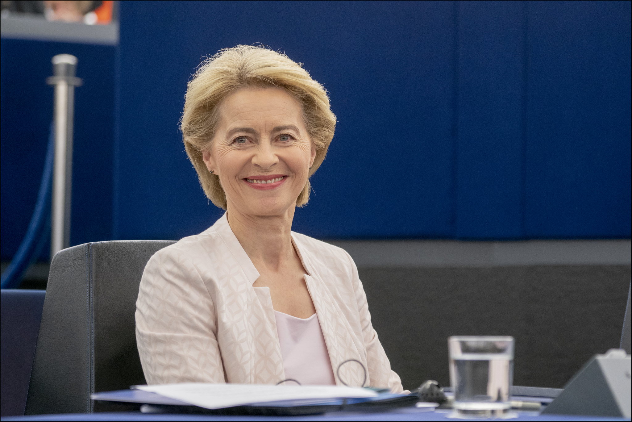 In a debate with MEPs, Ursula von der Leyen outlined her vision as Commission President.